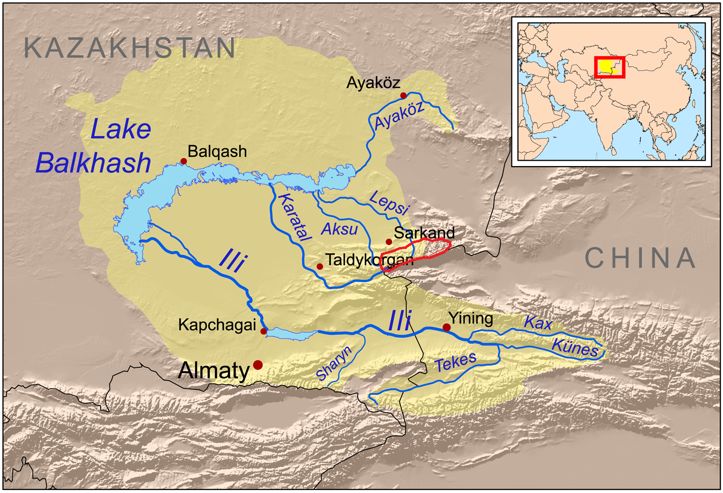 Borders of Zhongar Alatau National Park (in red, just southeast of Sarkand, Kazakhstan)